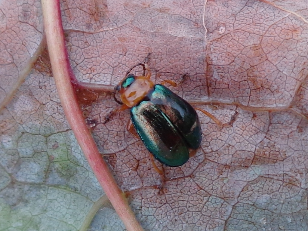 Sermylassa halensis. Found in Jēkabpils city, Latvia